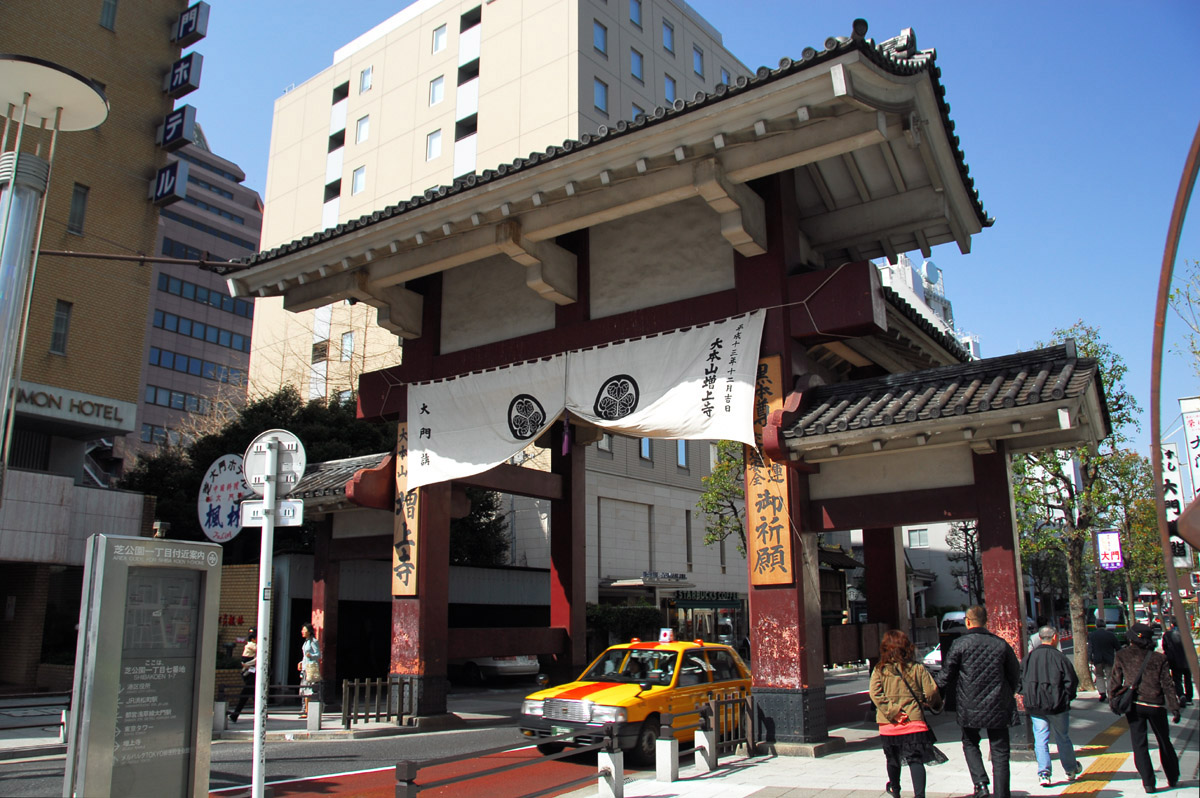 Zōjō-ji，Outer gate on the street